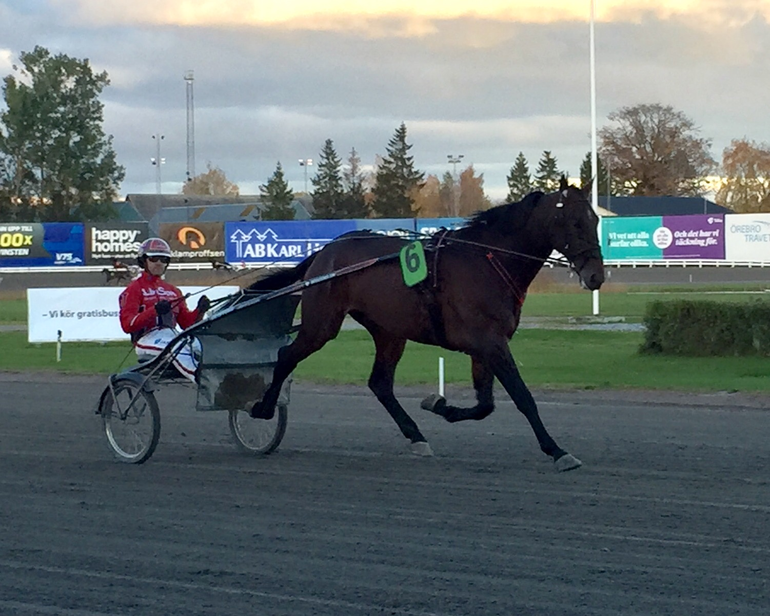 Johan Untersteiner and Day or Night In at Örebrotravet 2017.